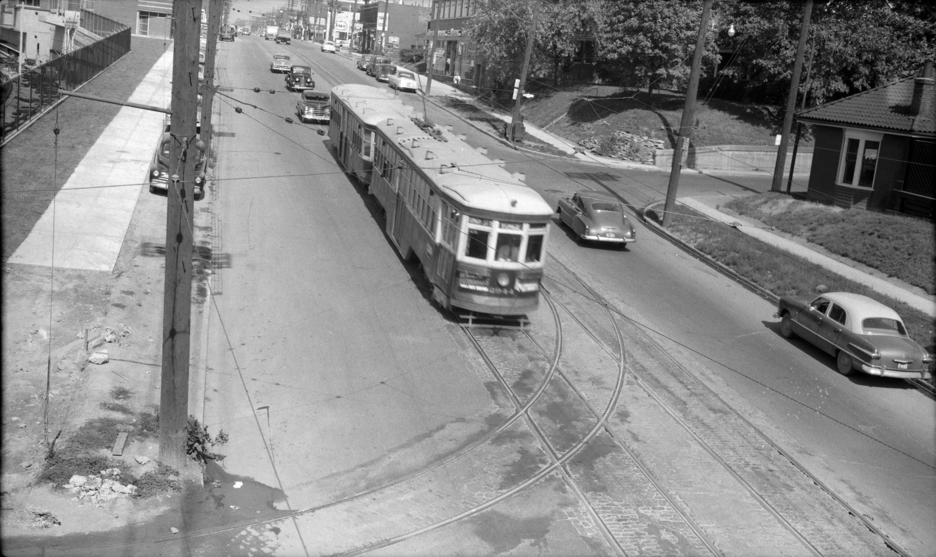 Yonge St. looking n. from G.T.R. Belt Line bridge s. of Merton St. in 1953. Note the interchange track between the Yonge streetcar line and the Davisville subway yard (left).